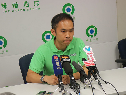 press con during waste paper crisis